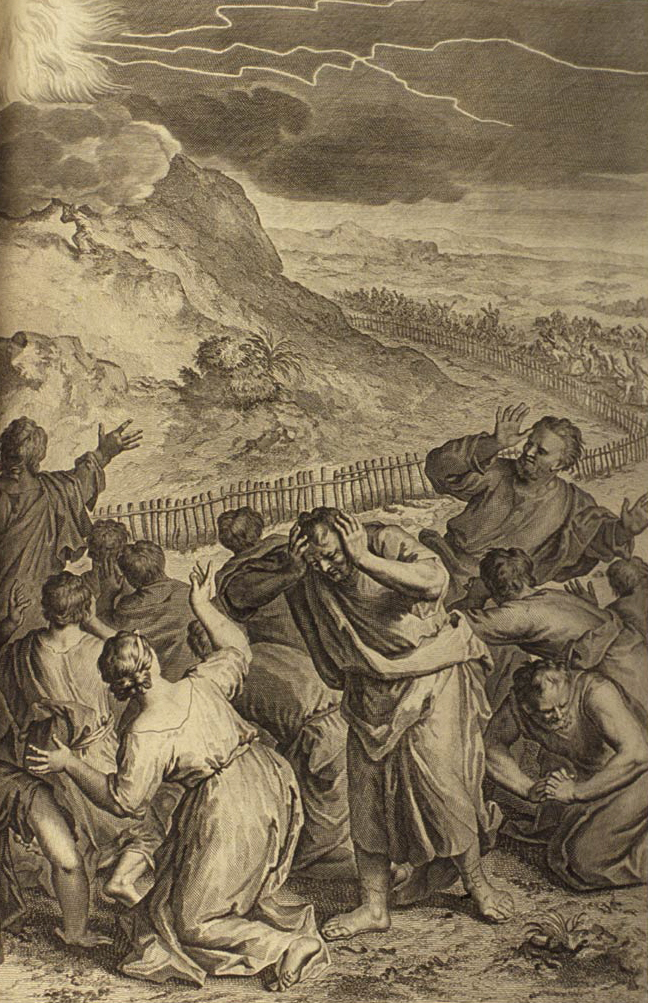 The promulgation of the Law in Mount Sinai (right page), as in Exodus 20:3-17, The 10 Commandments: "Thou shalt have no other gods before me. Thou shalt not make unto thee any graven image, or any likeness of any thing that is in heaven above, or that is in the earth beneath, or that is in the water under the earth: Thou shalt not bow down thyself to them, nor serve them: for I the Lord thy God am a jealous God, visiting the iniquity of the fathers upon the children unto the third and fourth generation of them that hare me; And shewing mercy unto thousands of them that love me, and keep my commandments. Thou shalt not take the name of the Lord thy God in vain; for the Lord will not hold him guiltless that taketh his name in vain. Remember the sabbath day, to keep it holy. Six days shalt thou labour, and do all thy work: But the seventh day is the sabbath of the Lord thy God: in it thou shalt not do any work, thou, nor thy son, nor thy daughter, thy manservant, nor thy maidservant, nor thy cattle, nor thy stranger that is within thy gates: For in six days the Lord made heaven and earth, the sea, and all that in them is, and rested the seventh day: wherefore the Lord blessed the sabbath day, an hallowed it. Honour thy father and thy mother: that thy days may be long upon the land which the Lord thy God giveth thee. Thou shalt not kill. Thou shalt not commit adultery. Thou shalt not steal. Thou shalt not bear false witness against thy neighbour. Thou shalt not covet thy neighbour's house, thou shalt not covet thy neighbour's wife, nor his manservant, nor his maidservant, nor his ox, nor his ass, nor any thing that is thy neighbour's." illustration from the 1728 Figures de la Bible; illustrated by Gerard Hoet (1648–1733) and others, and published by P. de Hondt in The Hague; image courtesy Bizzell Bible Collection, University of Oklahoma Libraries